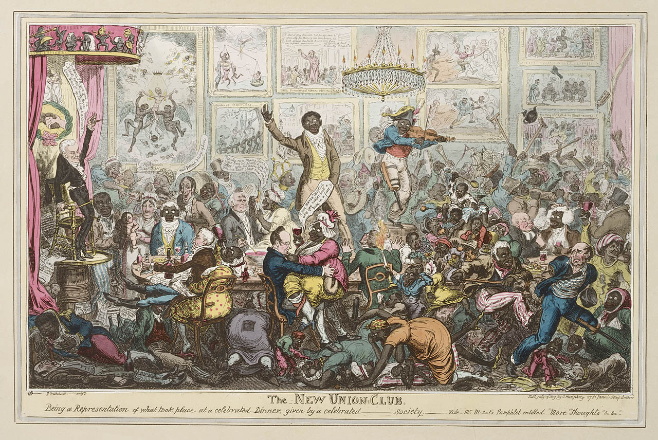 The New Union Club Being a Representation of what took place at a celebrated Dinner given by a celebrated society - includes in picture Billy Waters, Zachariah Macauley, William Wilberforce. A noted racist picture - see source - published 19 July 1819